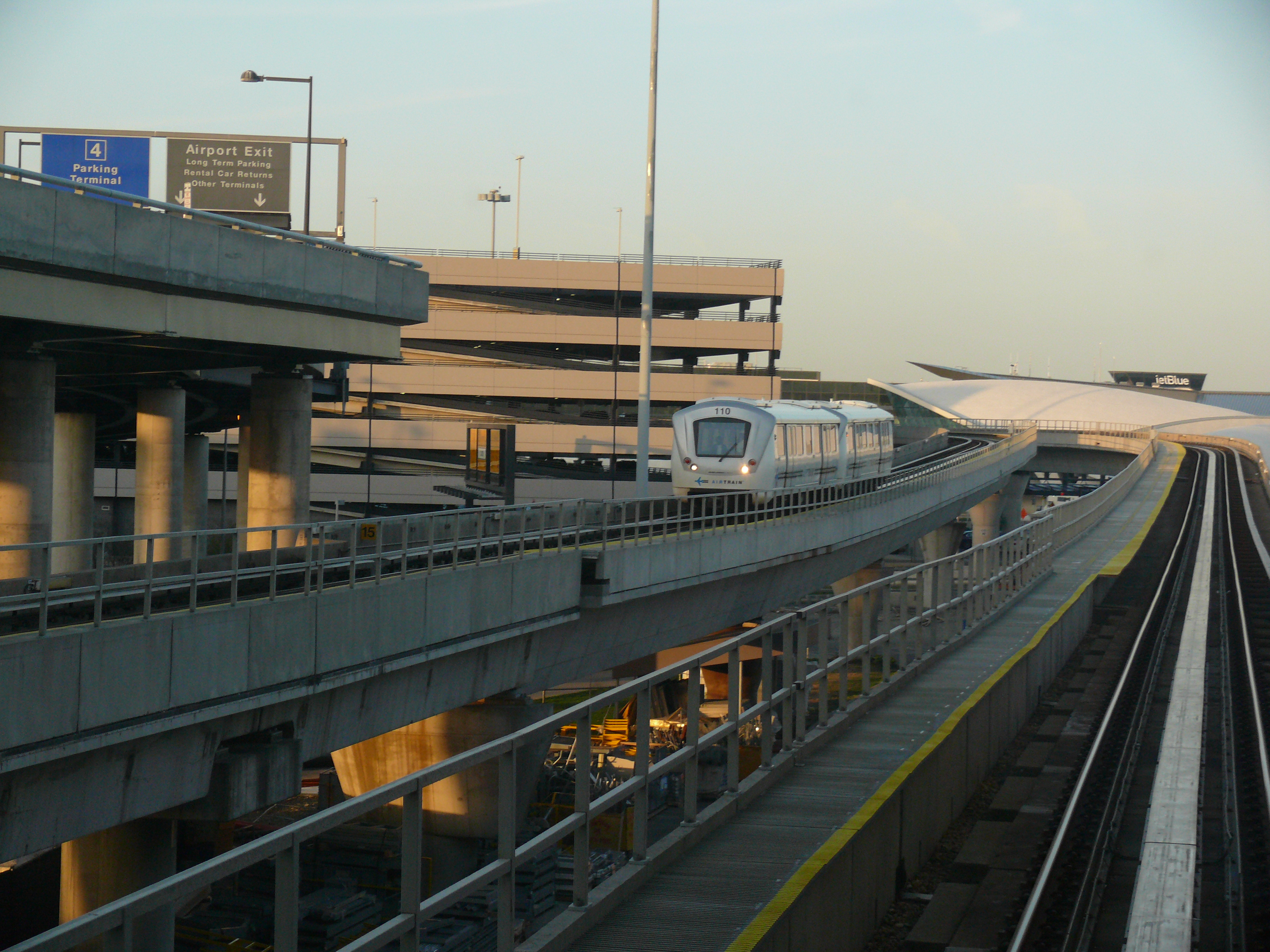 The AirTrain JFK a people mover at John F. Kennedy International Airport.